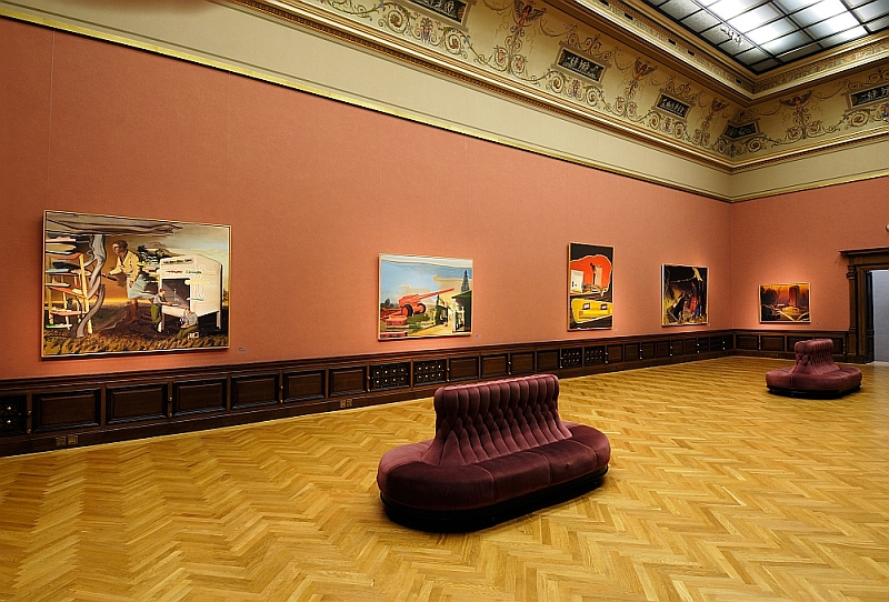 Exhibition Neo Rauch: Neue Rollen